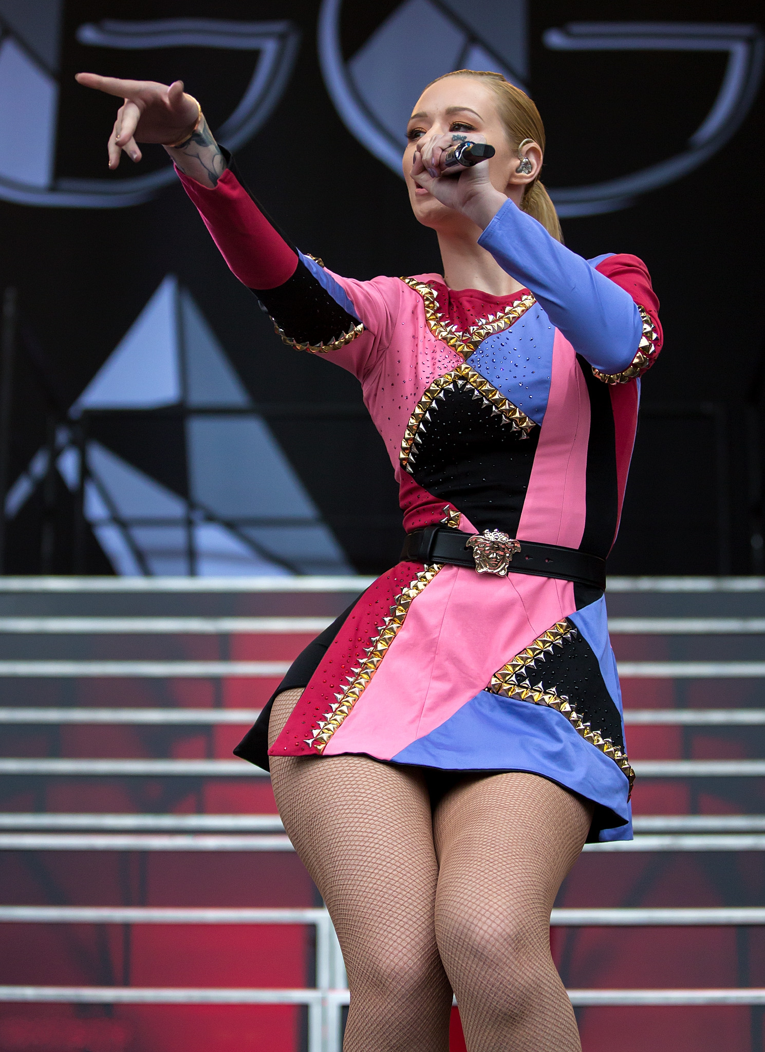 Iggy Azalea at the ACL Music Festival, 2014